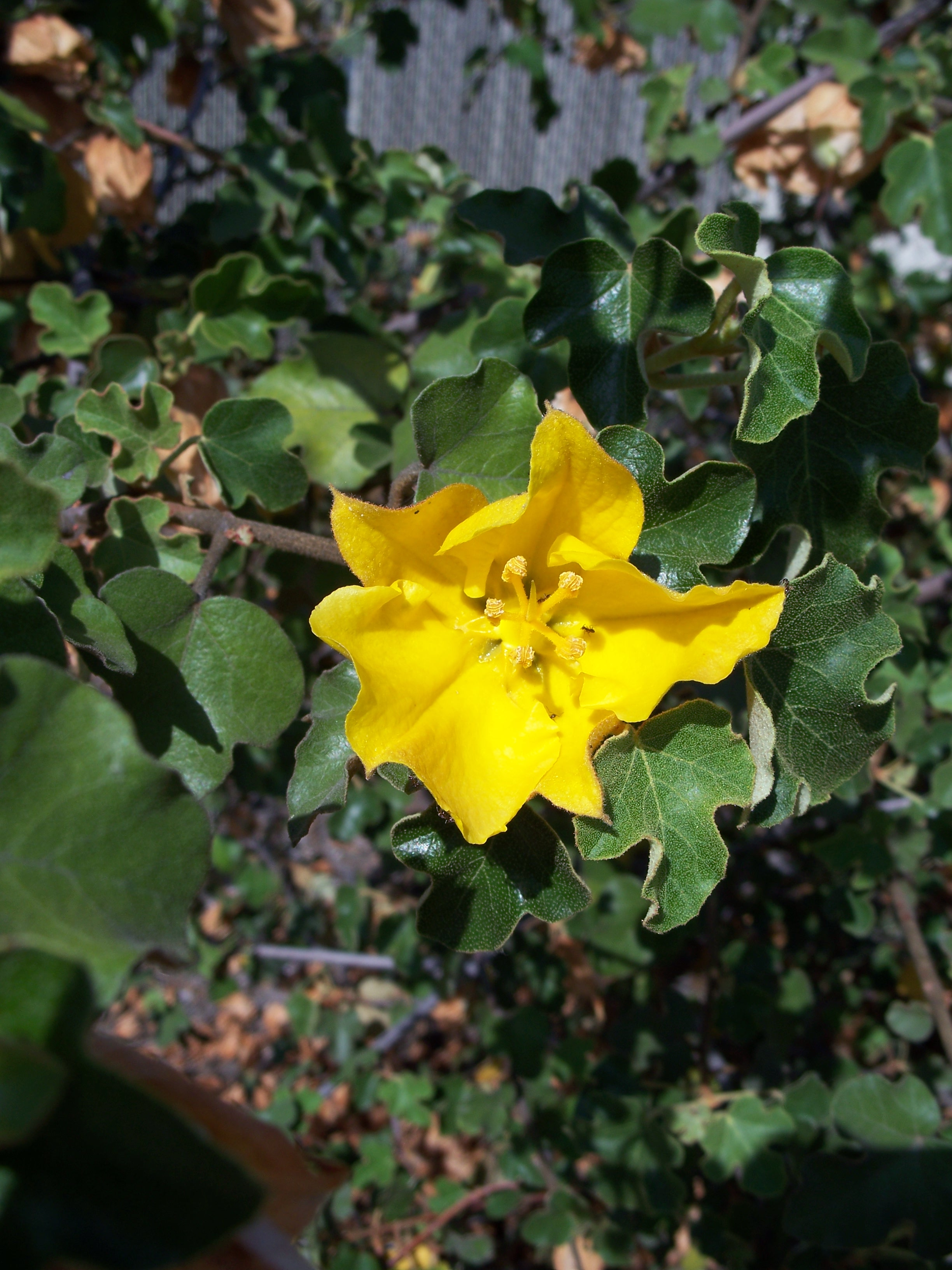 California Flannelbush